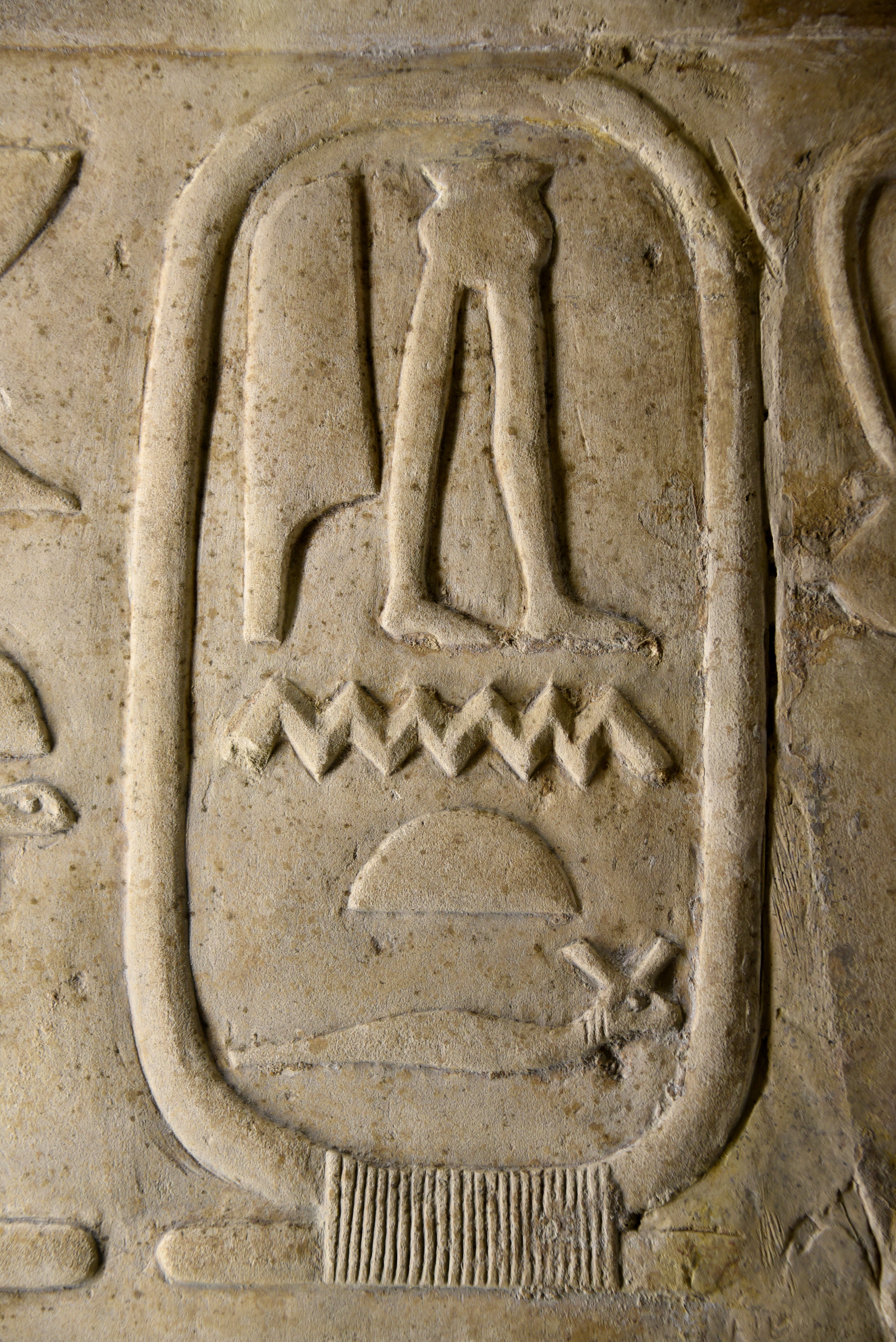 Cartouche of Sekhemre-Heruhirmaat Intef or Intef VIII. 17th Dynasty. Detail of a limestone block from Koptos (Qift), modern-day Egypt. The Petrie Museum of Egyptian Archaeology, London. With thanks to the Petrie Museum of Egyptian Archaeology, UCL. Note: The cartouche belong to Nubkheperre Intef.